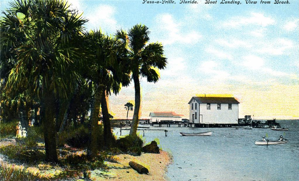 Boat landing, view from beach, Pass-a-Grille, Florida; from an original postcard postmarked 1911. Pass-a-Grille is a historic part of St. Petersburg.